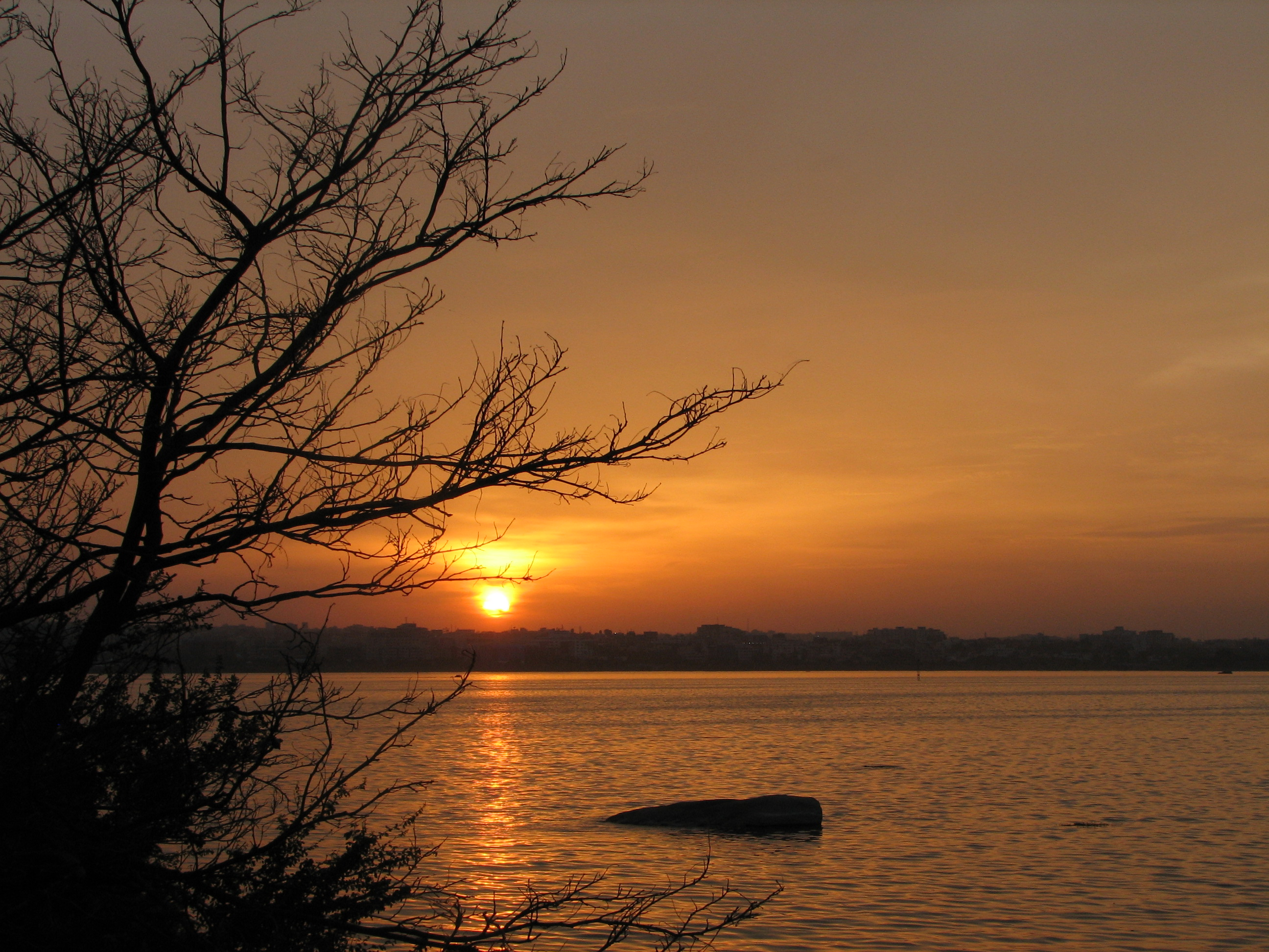 Uploaded on October 4, 2006 by Flickr User alosh bennett Uploaded by user:nikkul